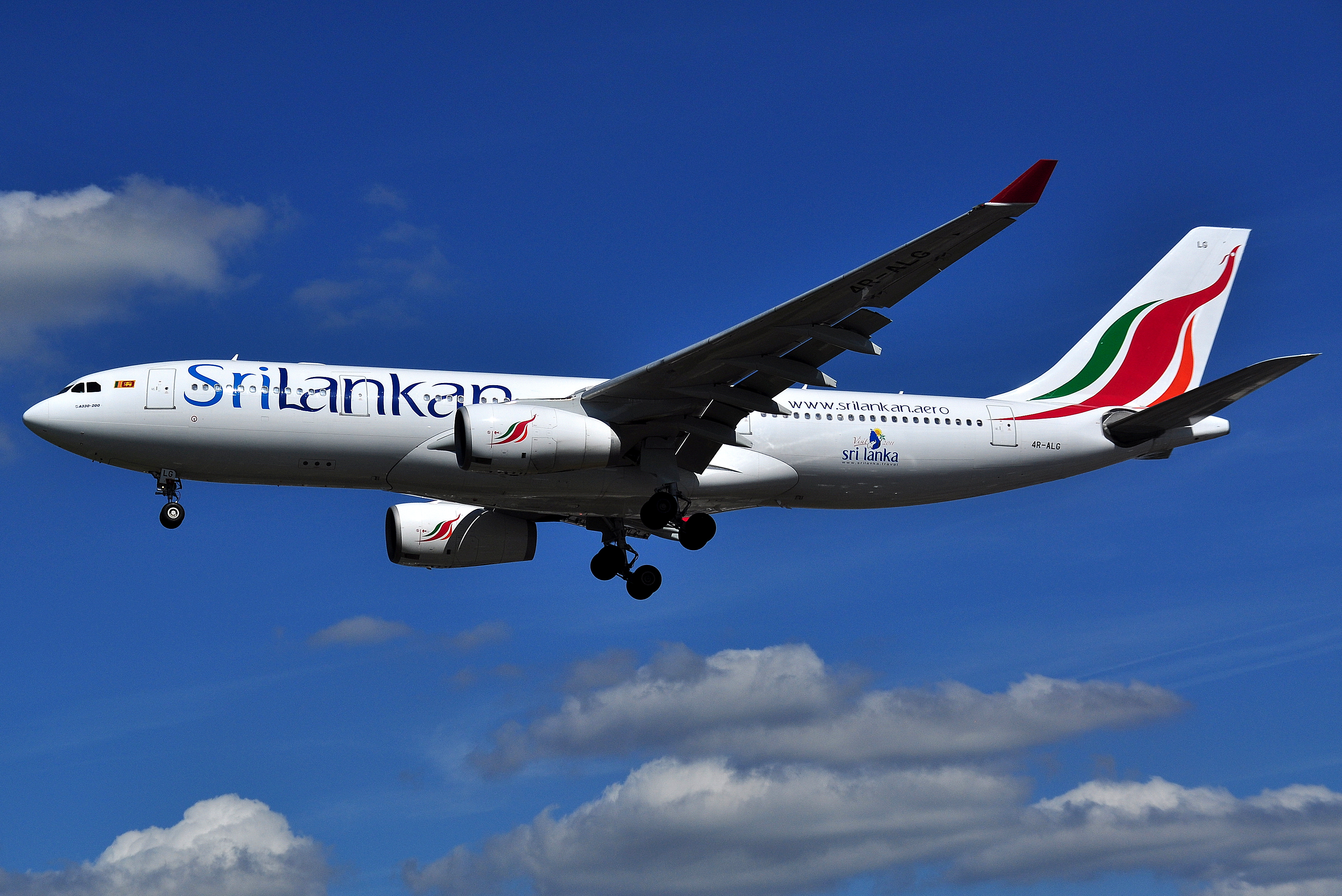 Model: Airbus A330-200 Airline: SriLankan Airlines Registration number: 4R-ALG